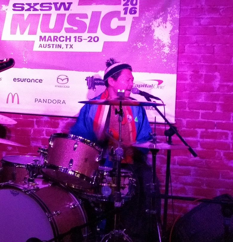 Kim Ban-jang, band leader of Windy City, SXSW 2016, Russian House.